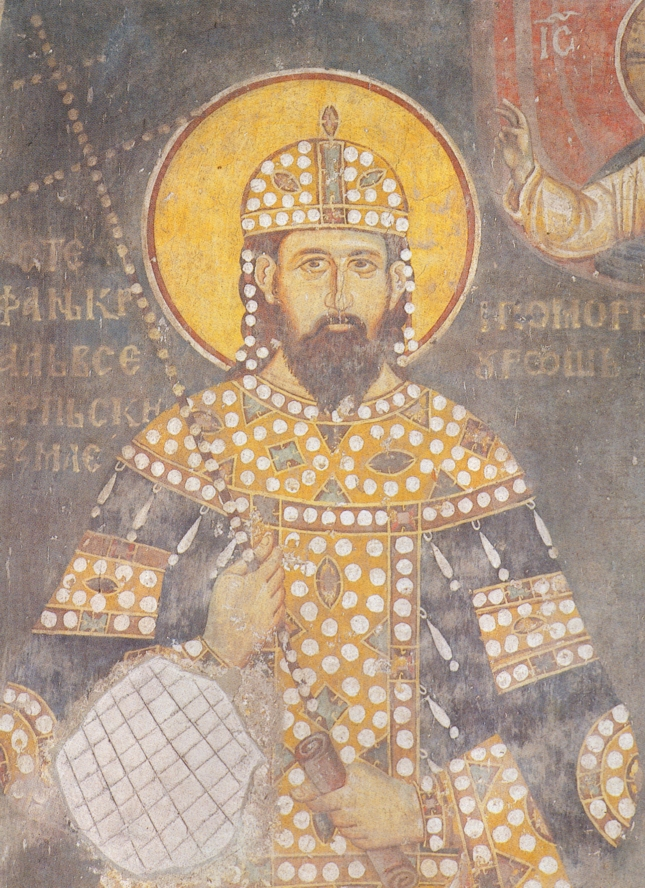 The fresco of king Milutin from Saint Achilleos church in Arilje, Serbia